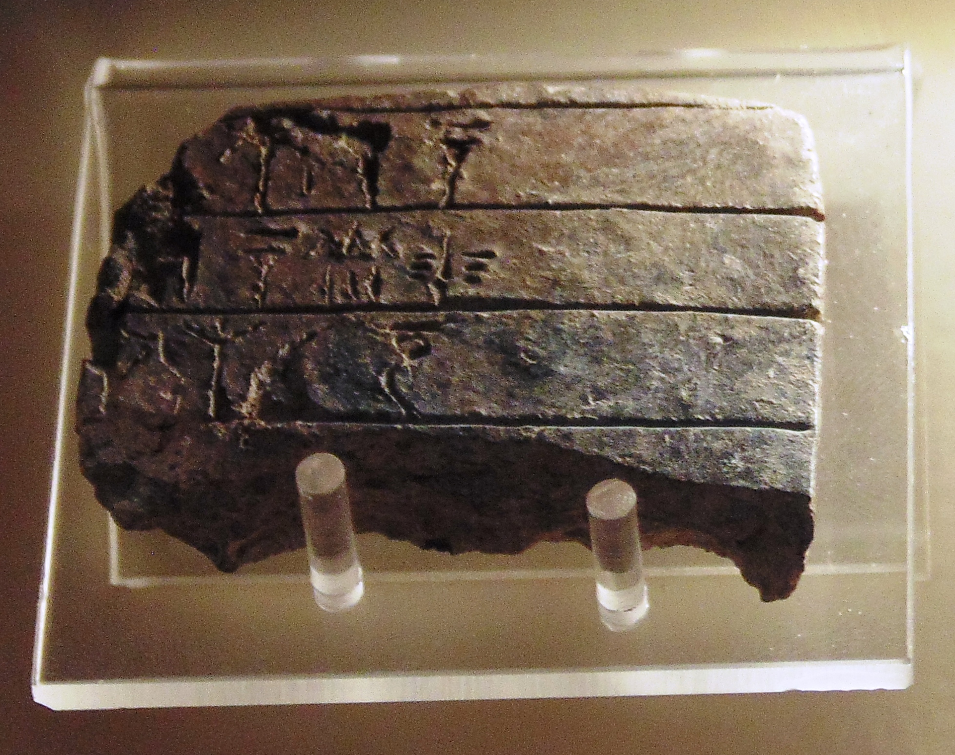 Collection of Archaeological Museum of Thebes